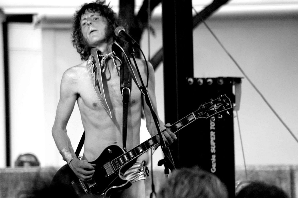 Dan Kroha playing with the Demolition Doll Rods at Detroit's Tastefest in the New Center around July 2007